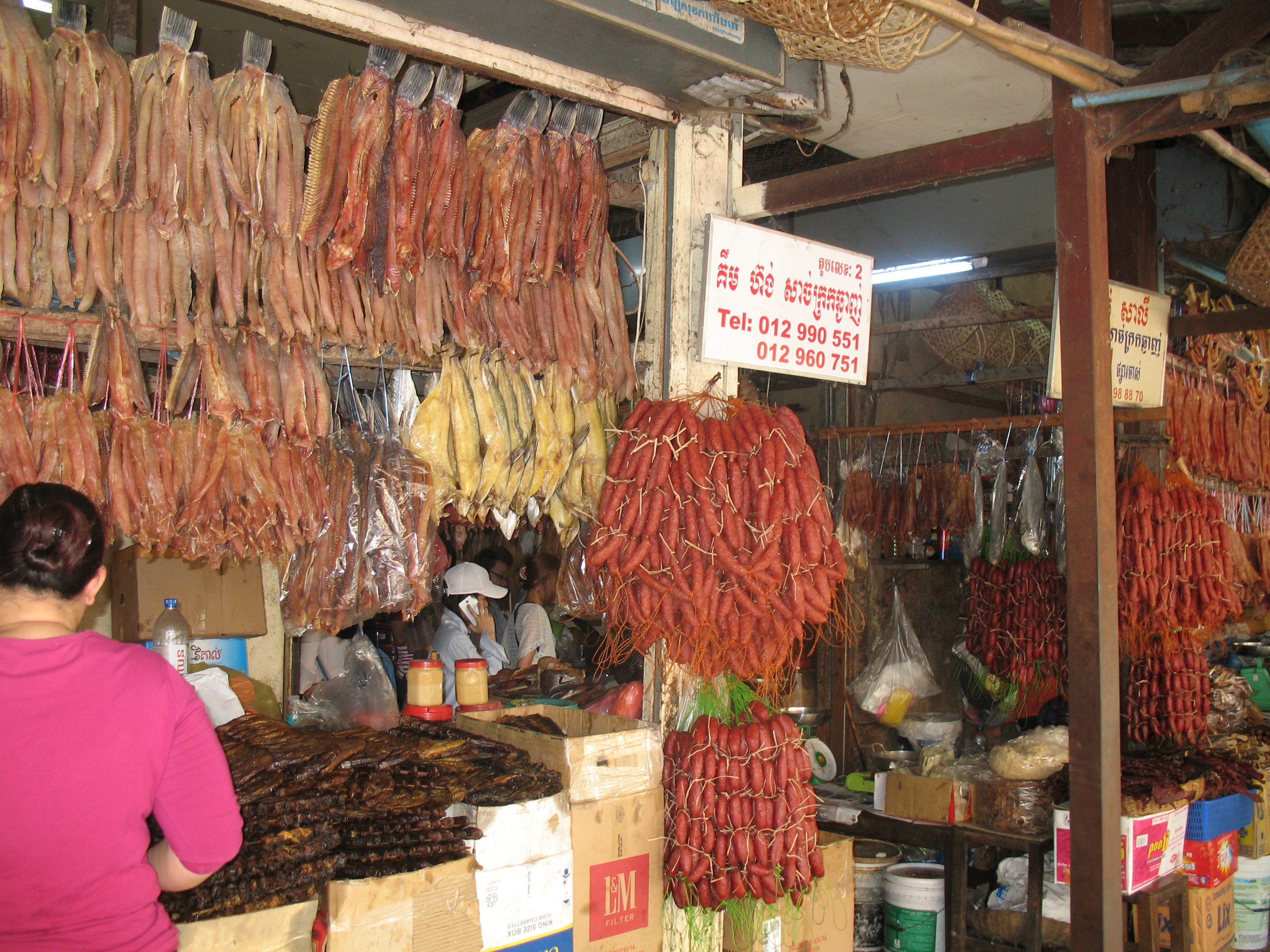 Psah Chas (Old Market) in Siem Reap, showing items such as dried fish and pork sausage for sale in market stalls